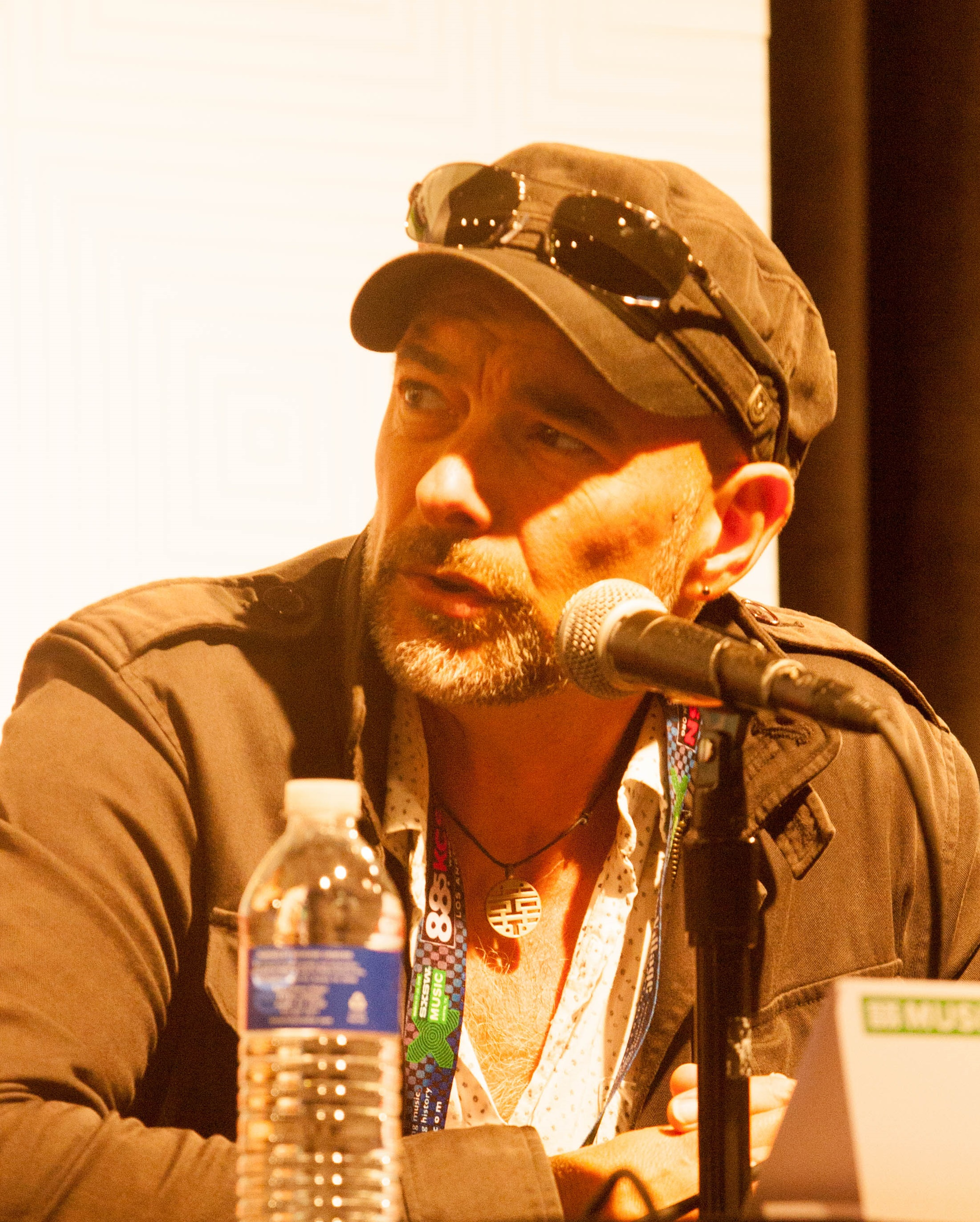 Tim Powles at SXSW in 2015